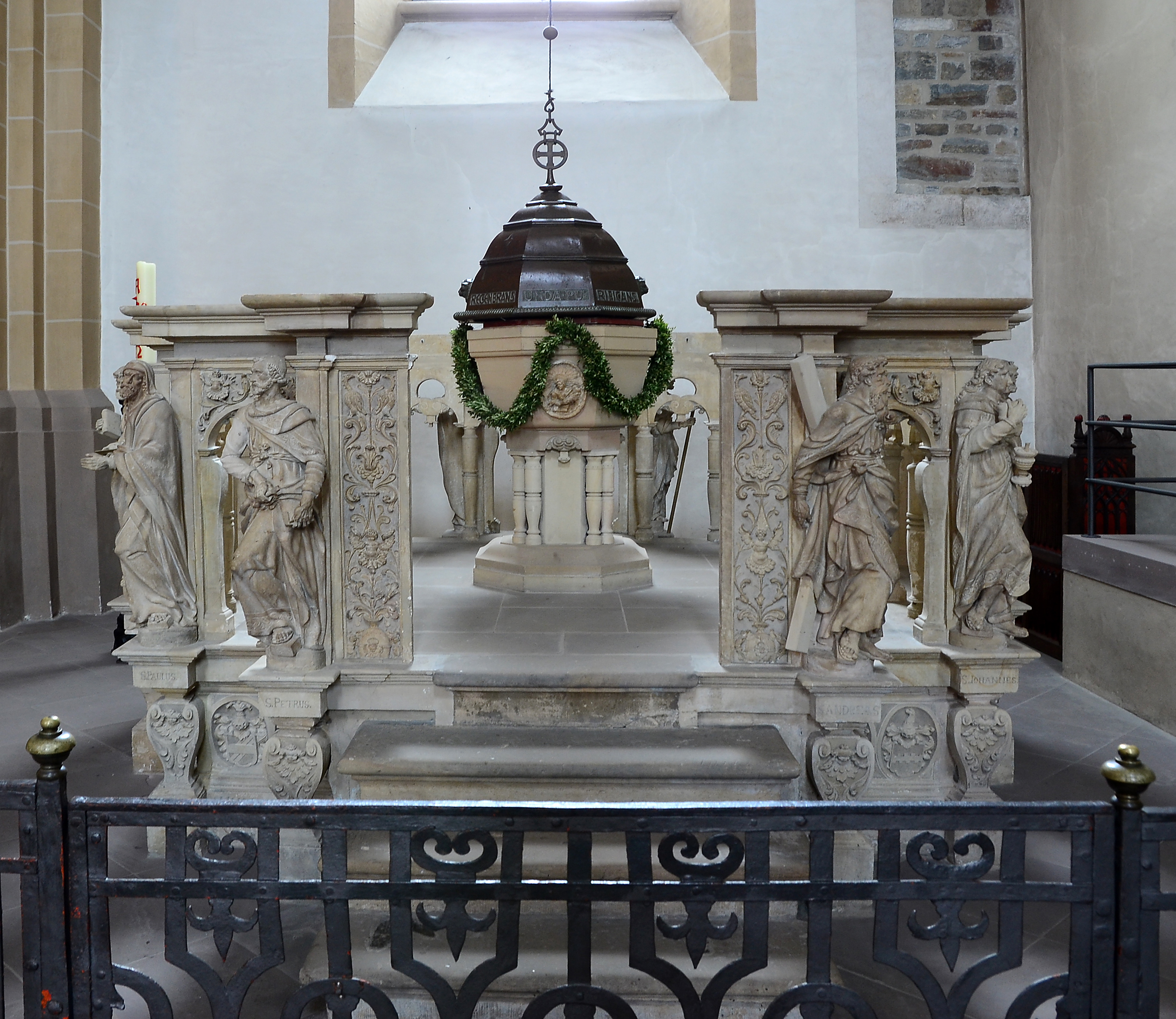 Paderborn Cathedral, baptismal font in the direction South, Paderborn, North Rhine Westphalia, GermanyThis is a photograph of an architectural monument., no. 3